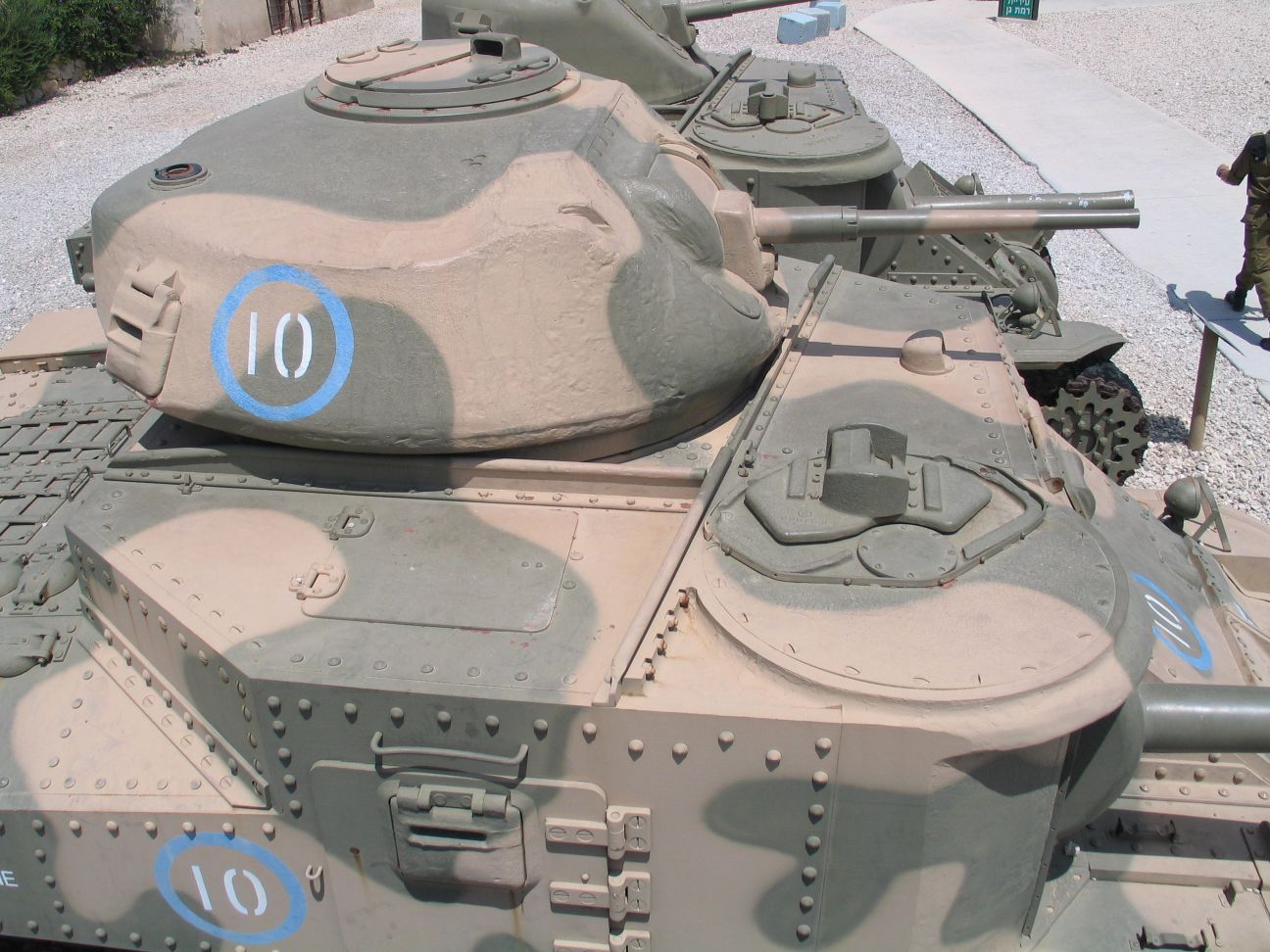 M3 Grant medium tank in Yad la-Shiryon Museum, Israel.